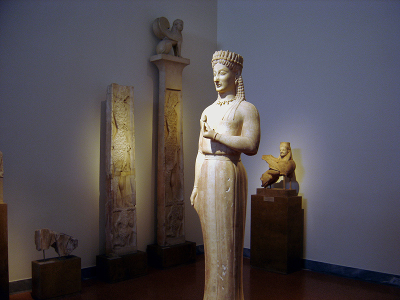 The Phrasikileia Kore, exhibited at the National Archaeological Museum of Athens.